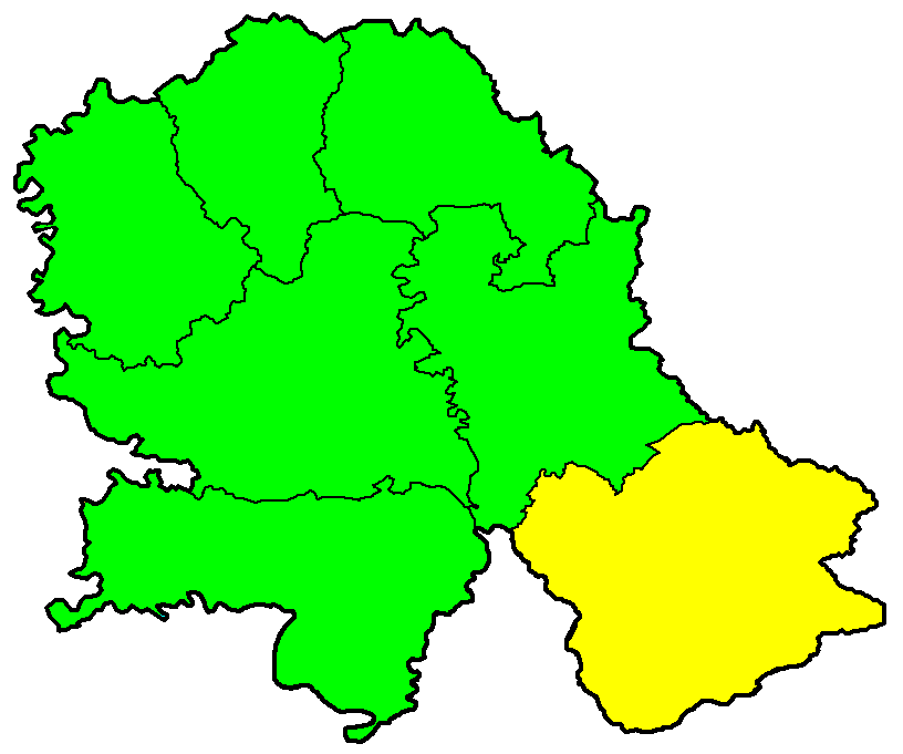 Map of South Banat